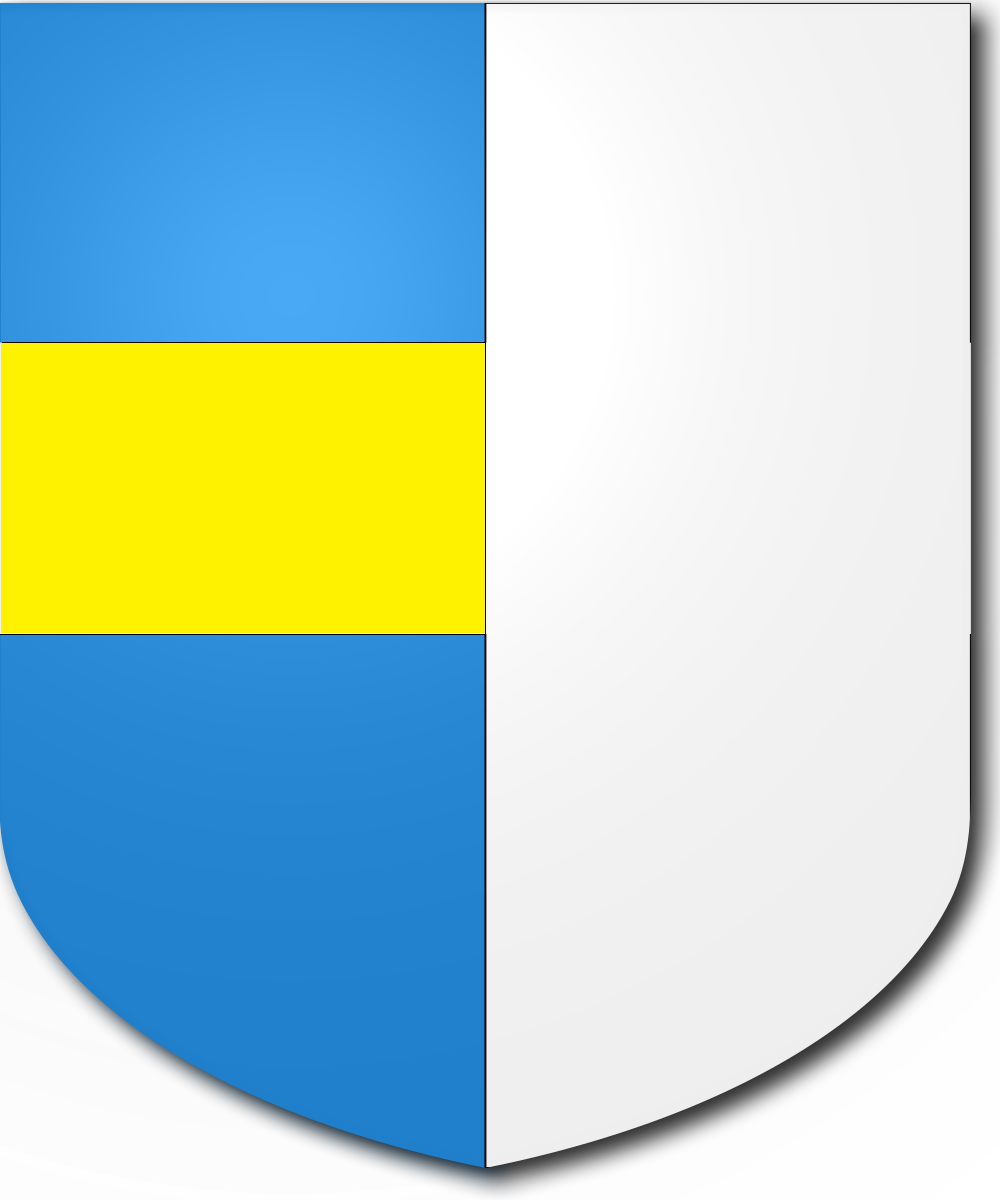 Manolesso coat of arms